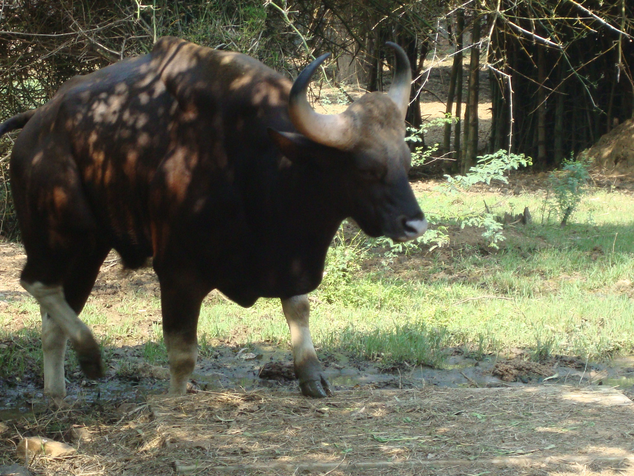 Indian Gaur Bison Bull in Vandaloor Zoo, Chennai. This specimen is supposedly one of the biggest bulls in captivity in South India.